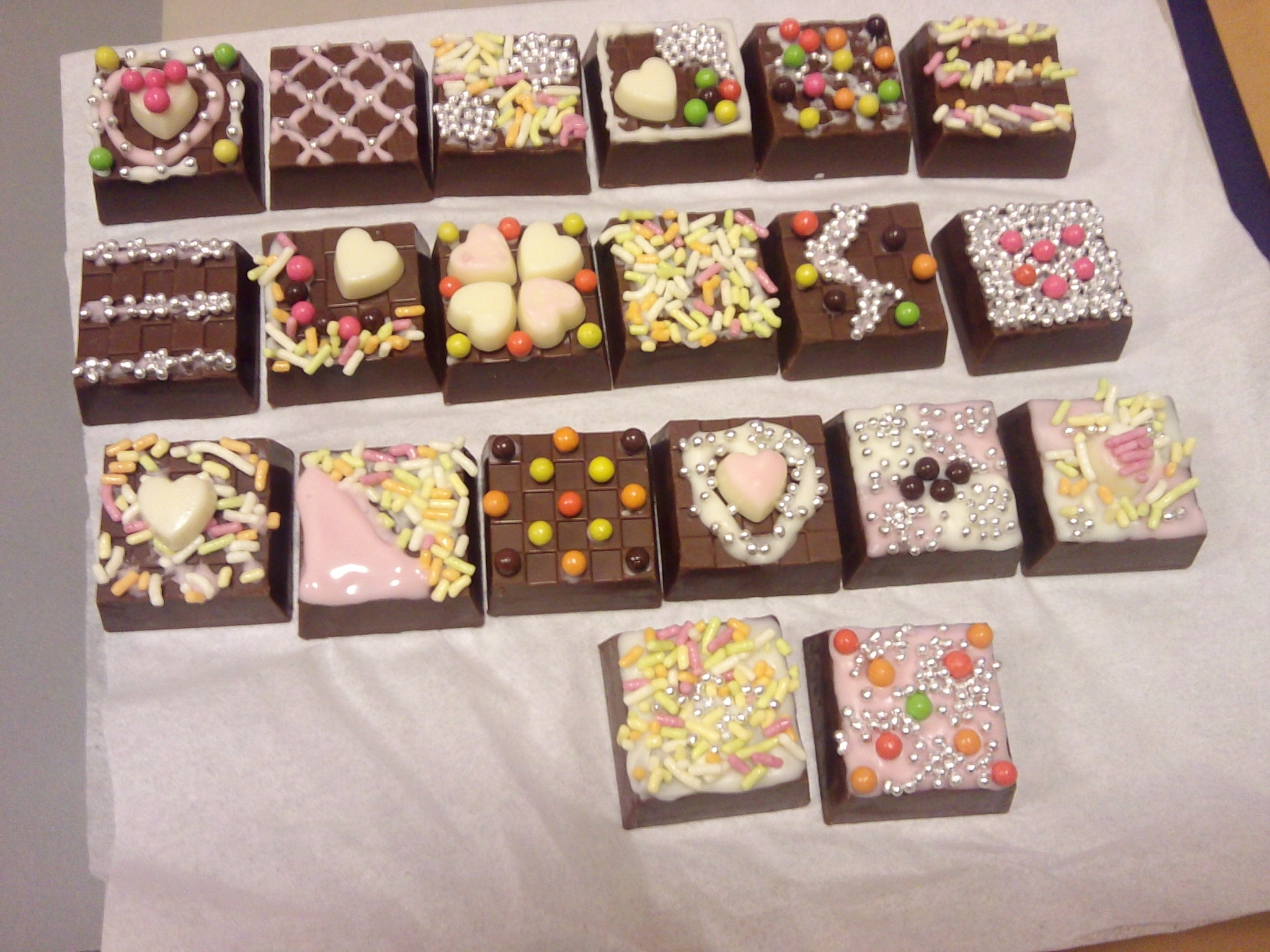 Valentine's Day Tirol-Choco in Japan